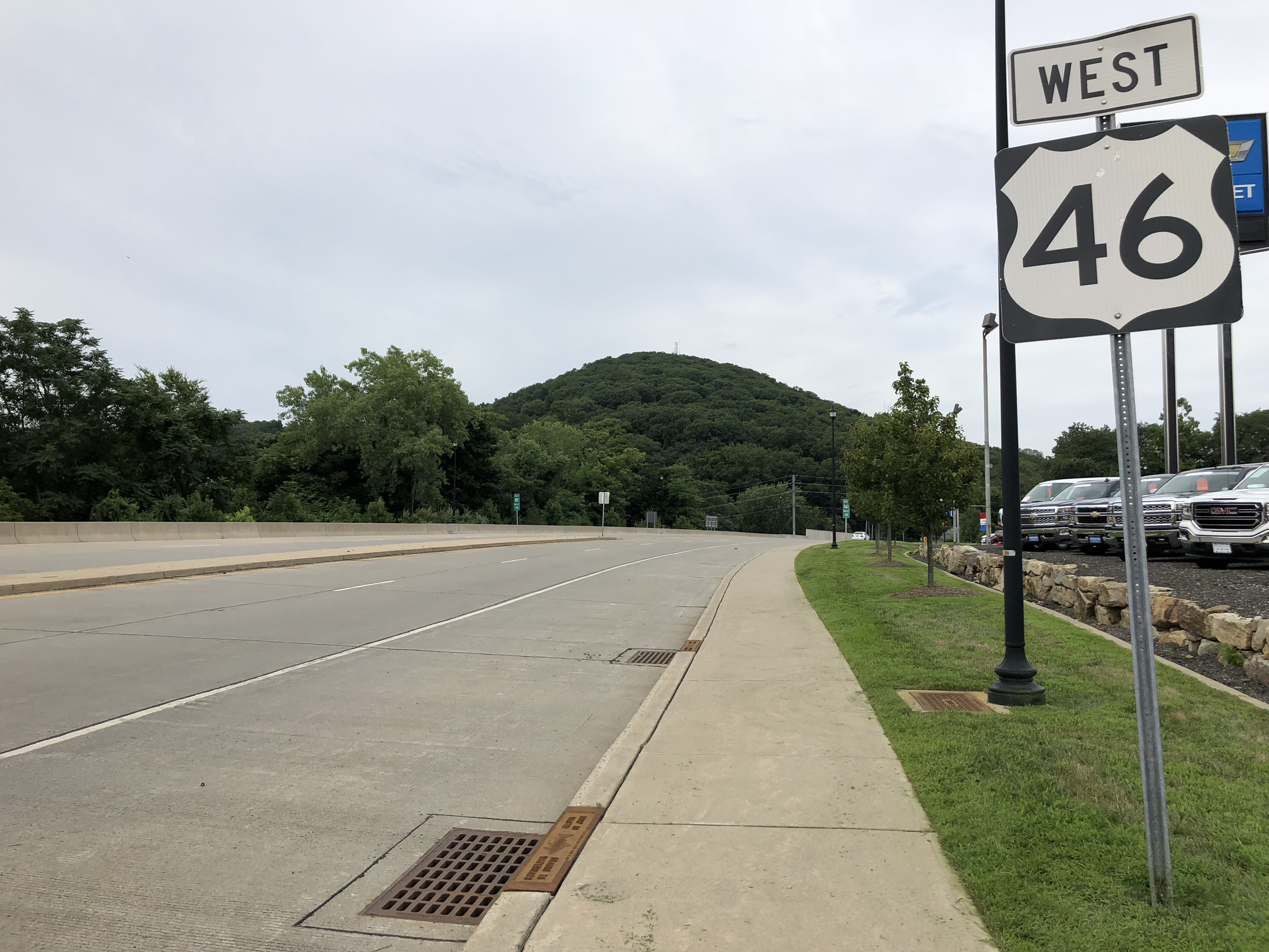 View west along U.S. Route 46 (McFarlan Street) just west of New Jersey State Route 15 (Clinton Street) in Dover, Morris County, New Jersey